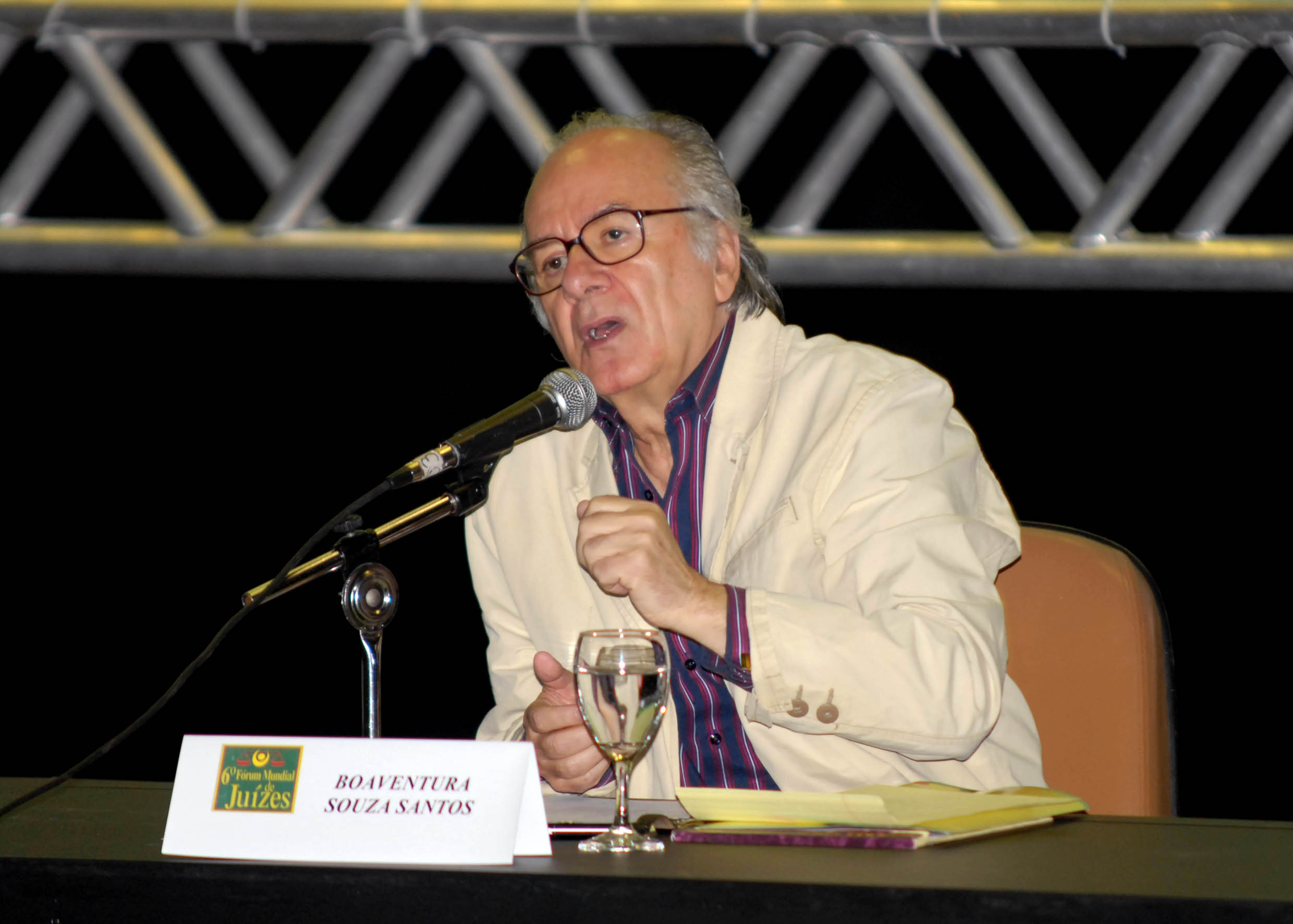 Porto Alegre: Portuguese sociologist Boaventura Souza Santos during the 6th World Forum of Judges.